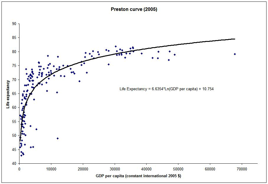 Graph of the Preston Curve for 2005, cross section data